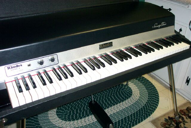 Rhodes Mark I 73